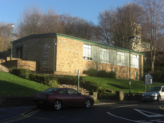 Newburn Library, near to Newburn, Newcastle Upon Tyne, Great Britain.